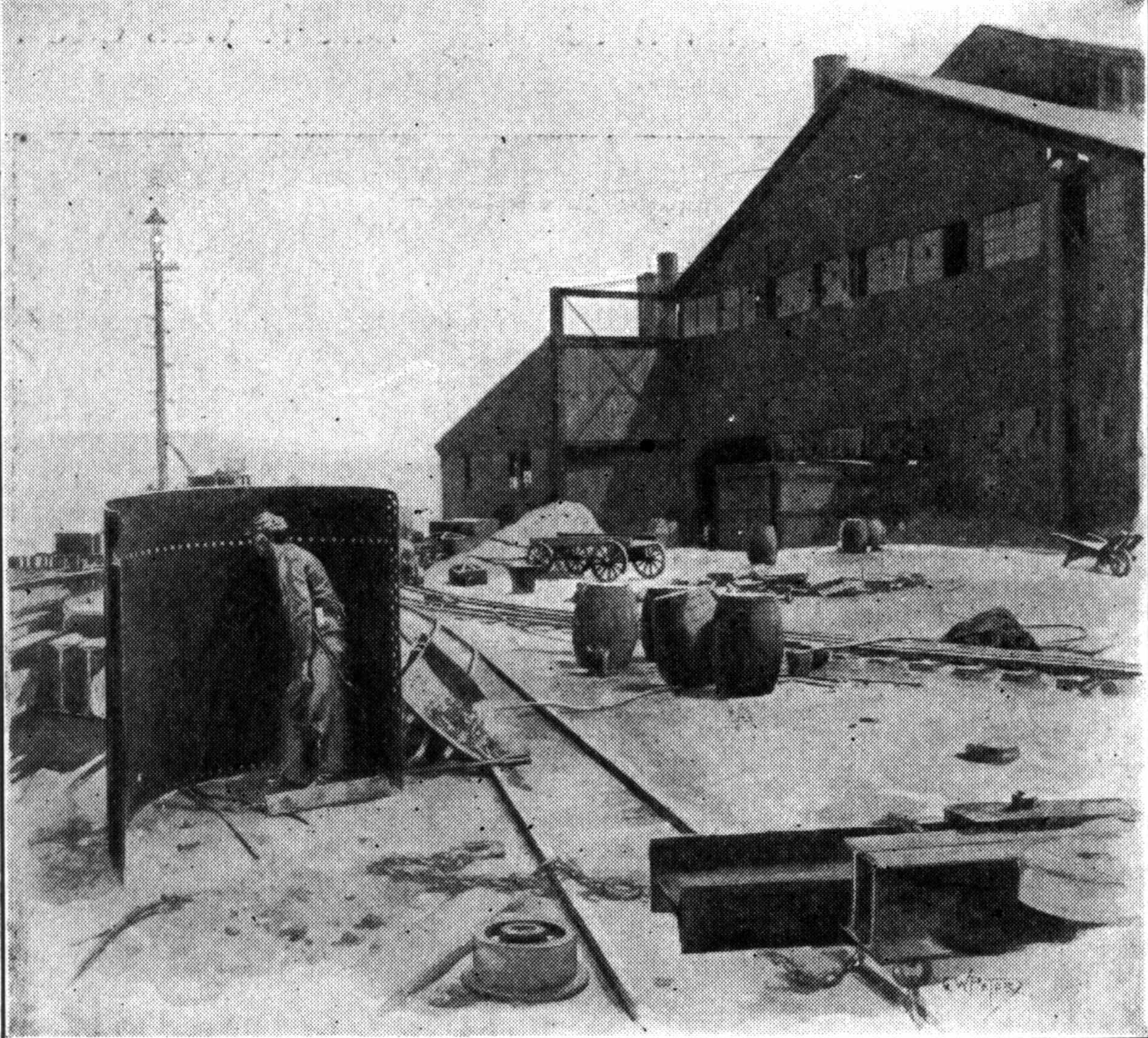 The Carnegie Steel Works. Showing the shield used by the strikers when firing the cannon and watching the Pinkerton men, Homestead strike.